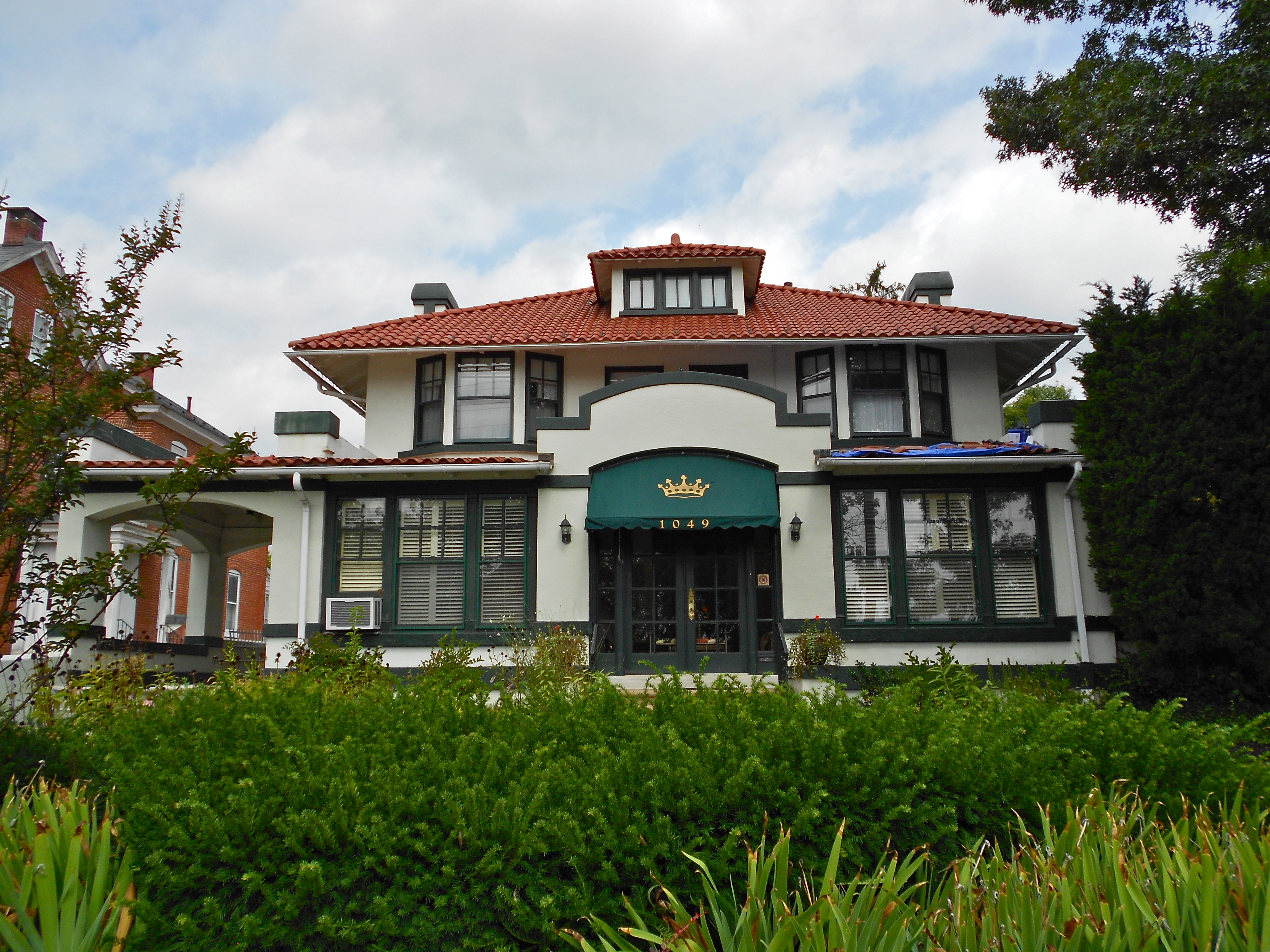 Totten House. In Lancaster County just east of Lancaster City, Pennsylvania